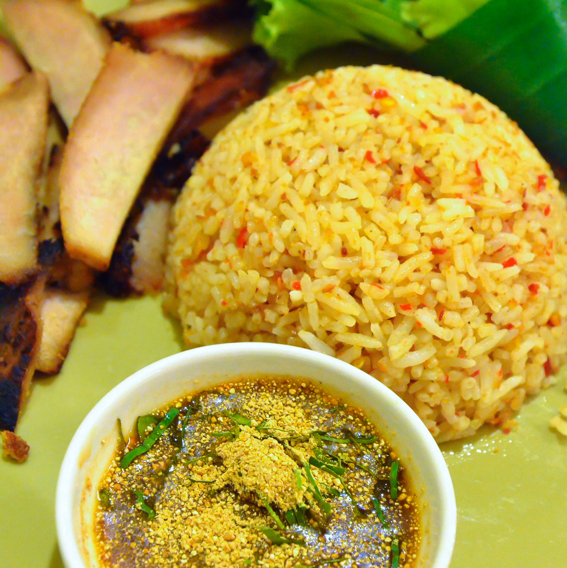 Khao phat nam phrik narok (Thai script: ข้าวผัดน้ำพริกนรก) literally means "rice fried with chilli paste from hell". The rice is fried with nam phrik narok, a very spicy chilli paste made with fried catfish, grilled onion and garlic, grilled (dried) chillies, sugar, fish sauce and shrimp paste. Here it is served with mu yang (grilled pork) and nam chim chaeo, a spicy dipping sauce made with dried chillies, sugar and ground dry roasted rice.